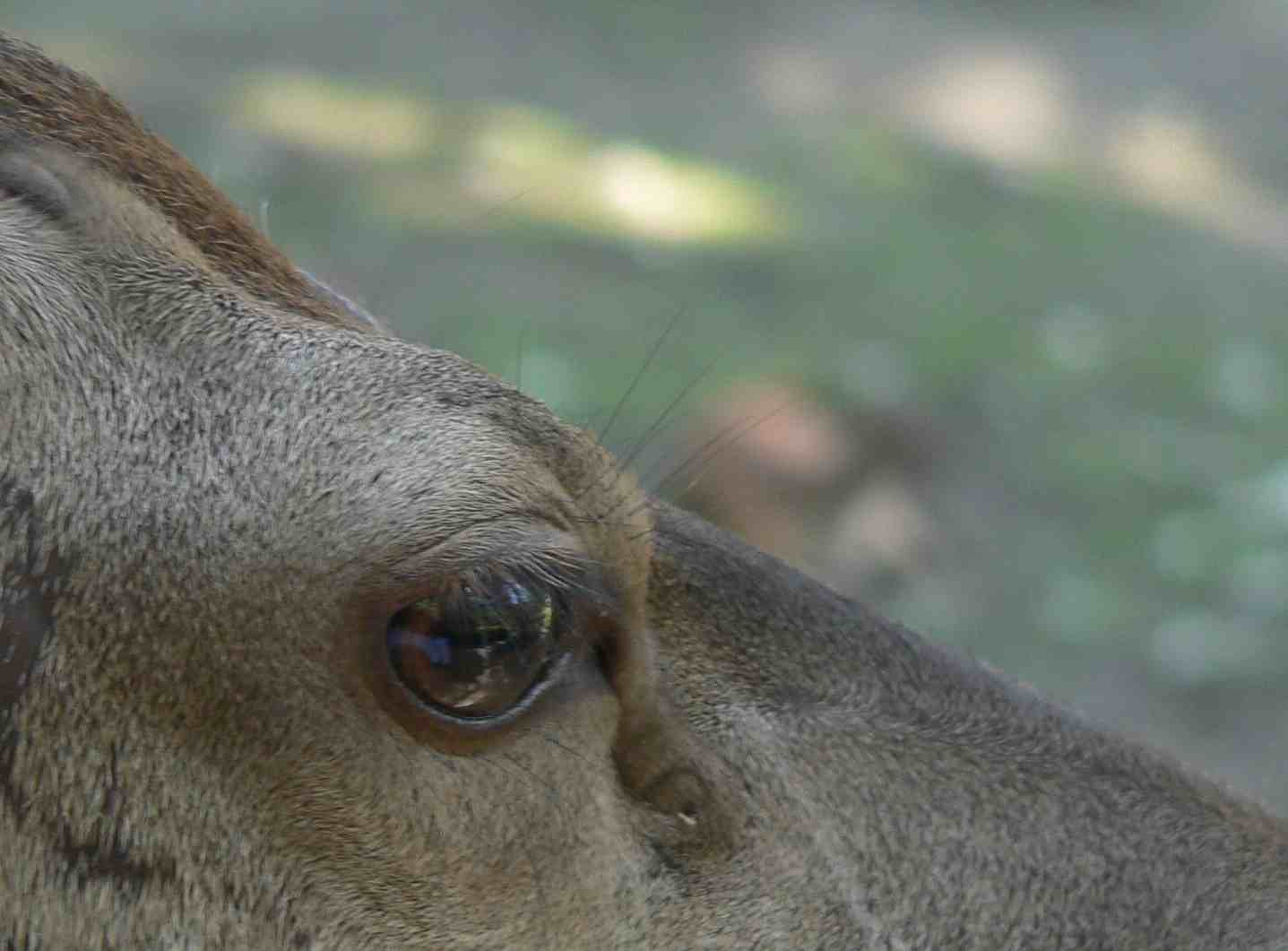 Cervus elaphus eye of female